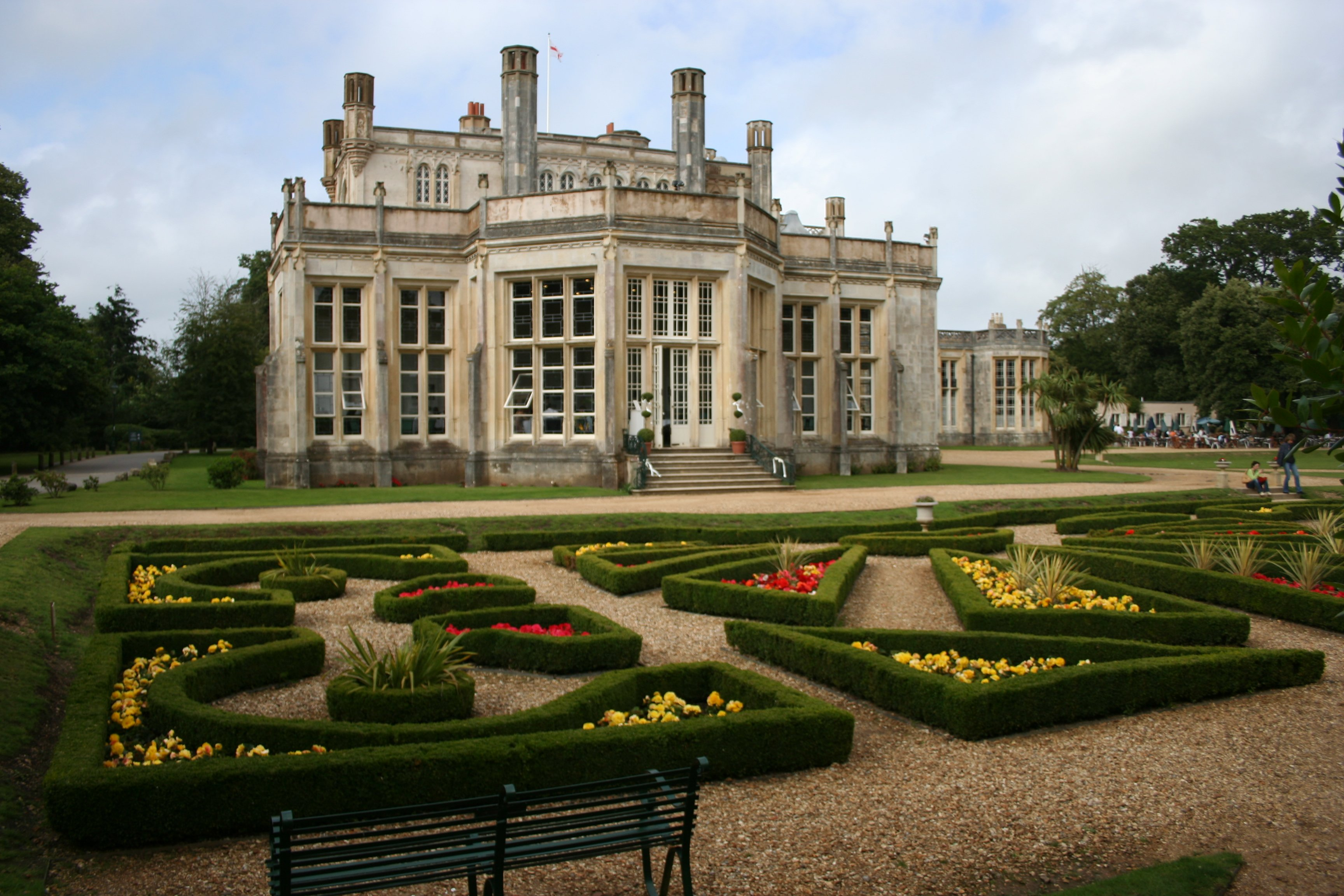 Highcliffe Castle, in Highcliffe, Dorset, England.